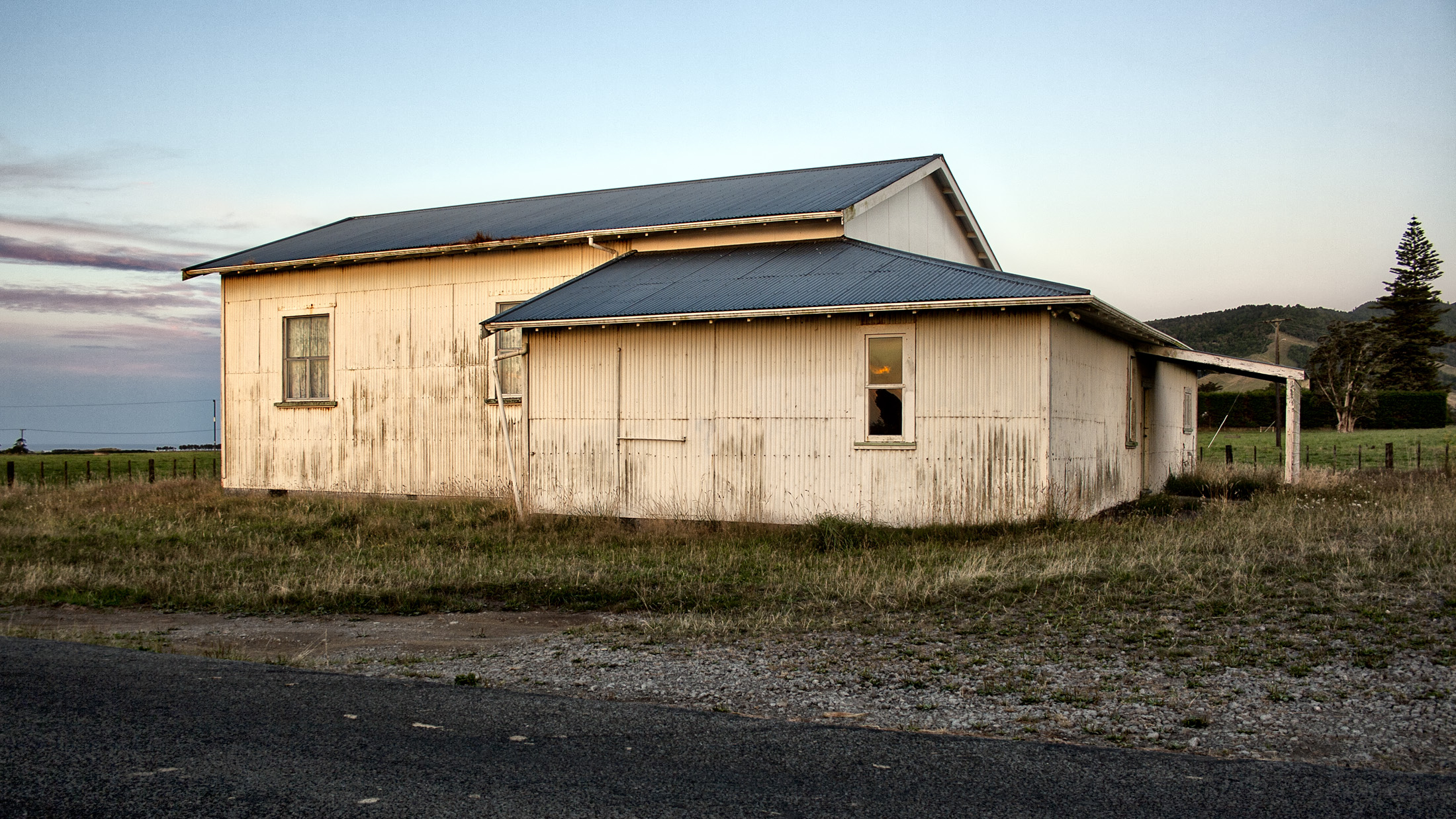 The sun setting on Tataraimaka Hall, State Highway 45.